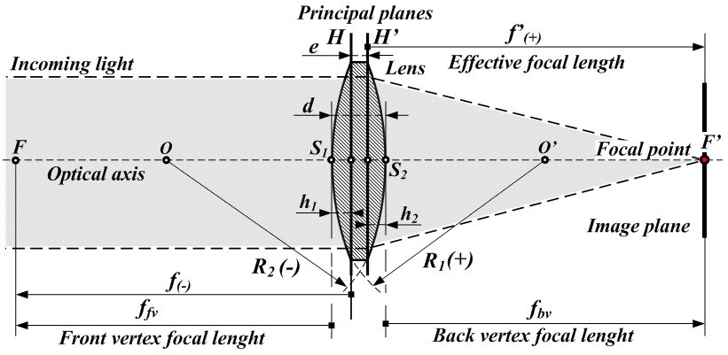 Focal length diagram of positive lens.